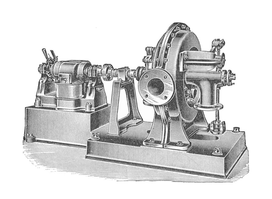 Vortex turbine, with direct-coupled dynamo (Rankin Kennedy, Electrical Installations, Vol III, 1903).jpg